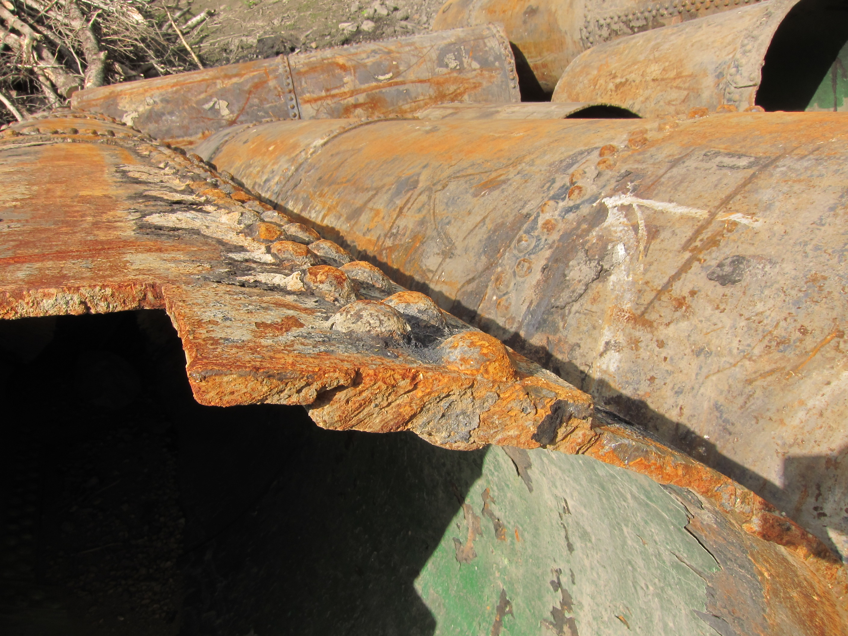 Hammeren power station, old pipes (produced 1898, replaced 2014) made with riveted joins.